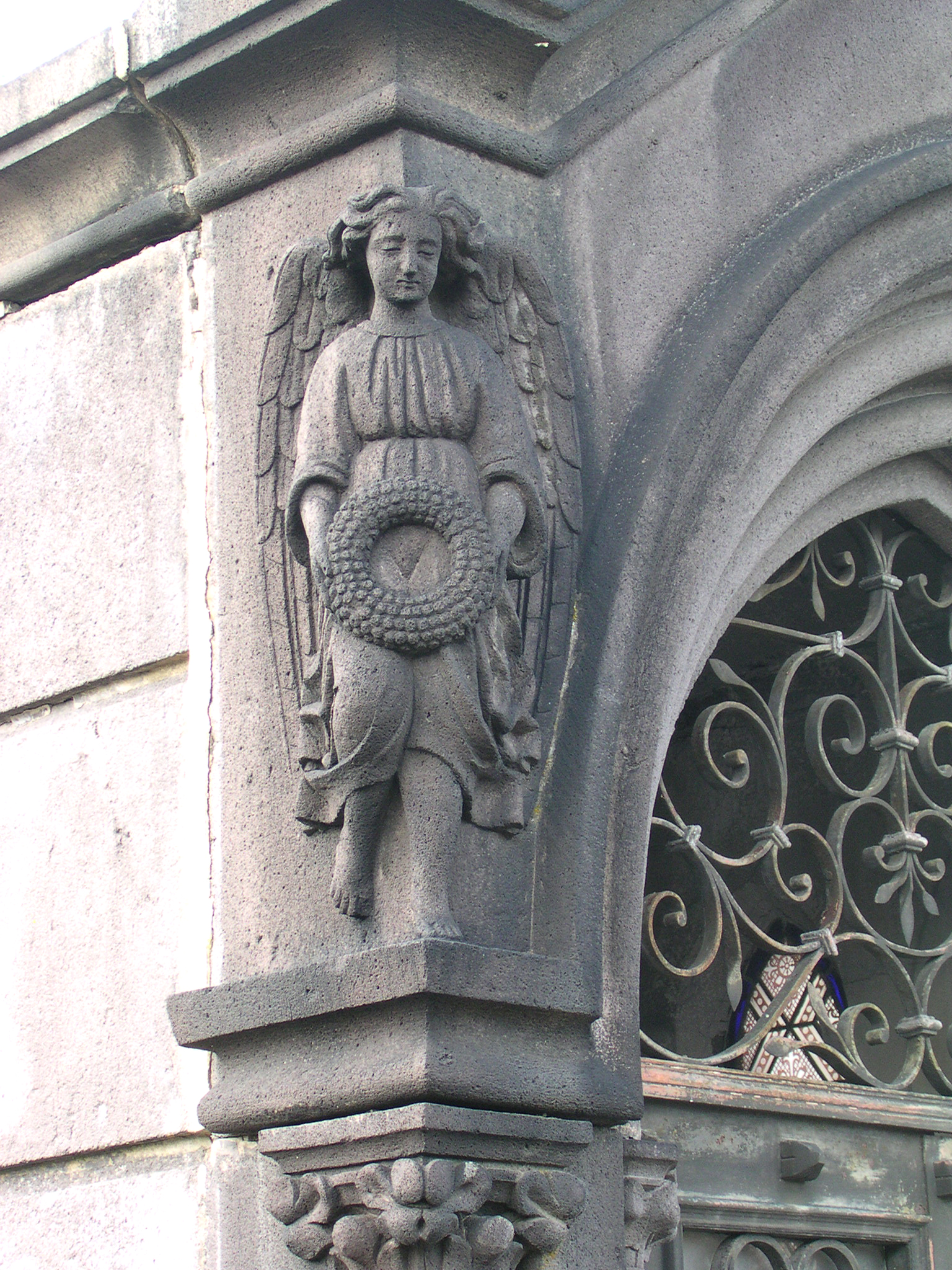 Carmes cemetery, Clermont-Ferrand (France), an angel, detail of a mausoleum Photographie prise par/picture taken by Romary 08 juillet/July 2006